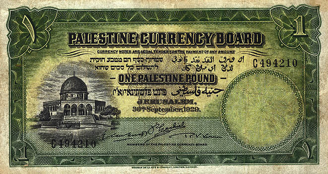 Palestine pound